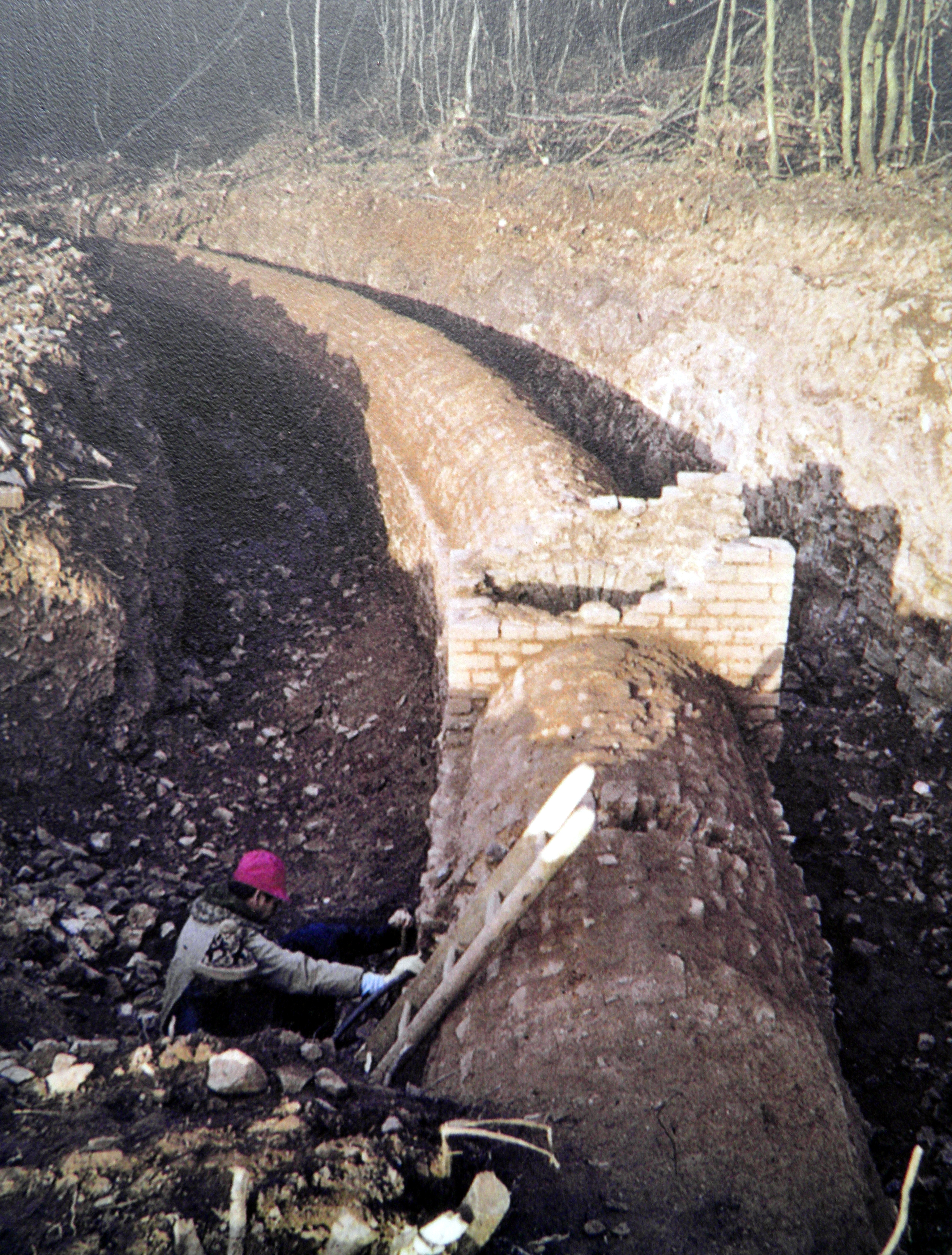 The Eifel aqueduct near Cologne showing vaulted roof and inspection manhole, Eifel Aqueduct, Germany